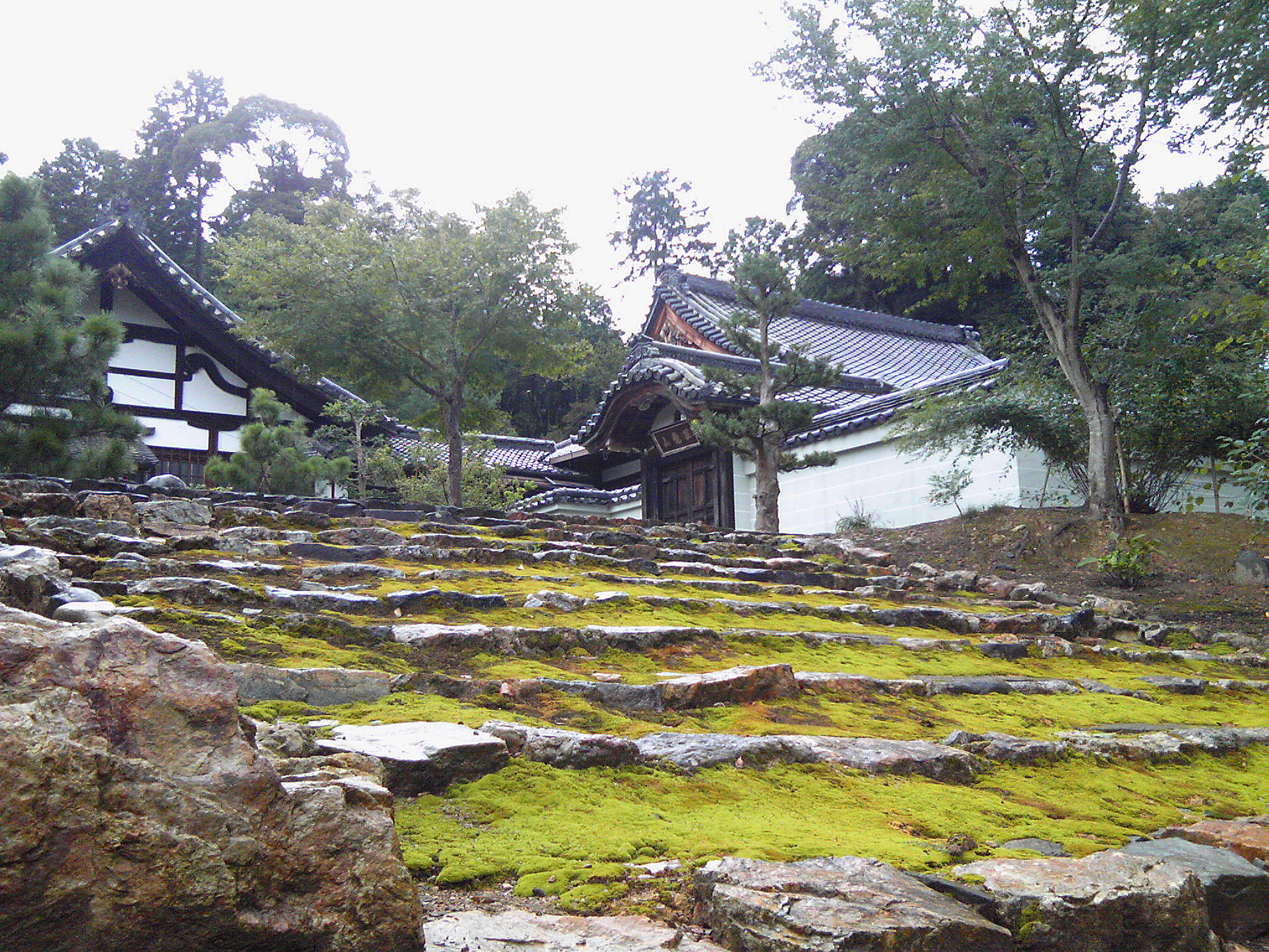 Myoko-ji in Ukyo-ku, Kyoto, Kyoto Prefecture, Japan